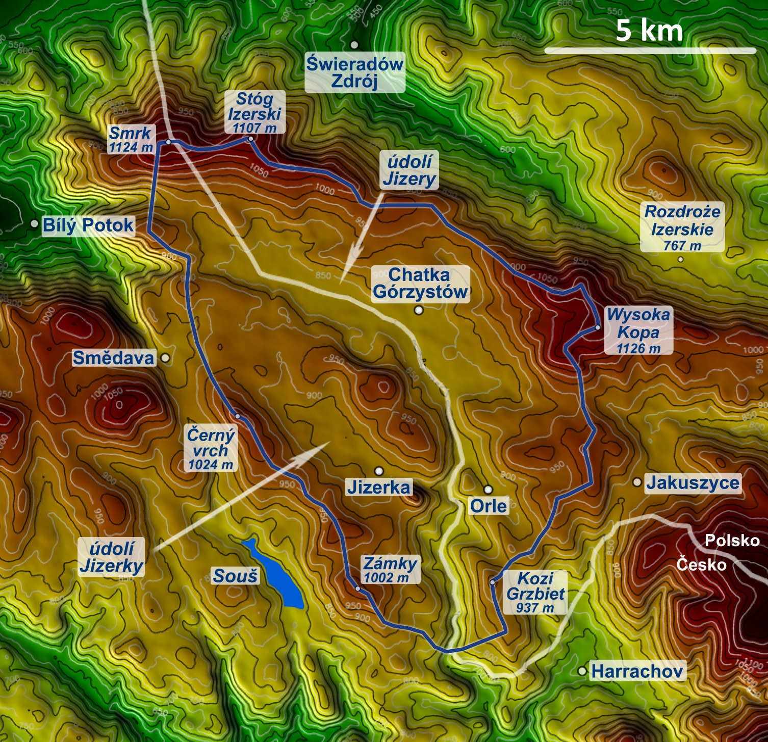 Map of Izera Dark-Sky Park.